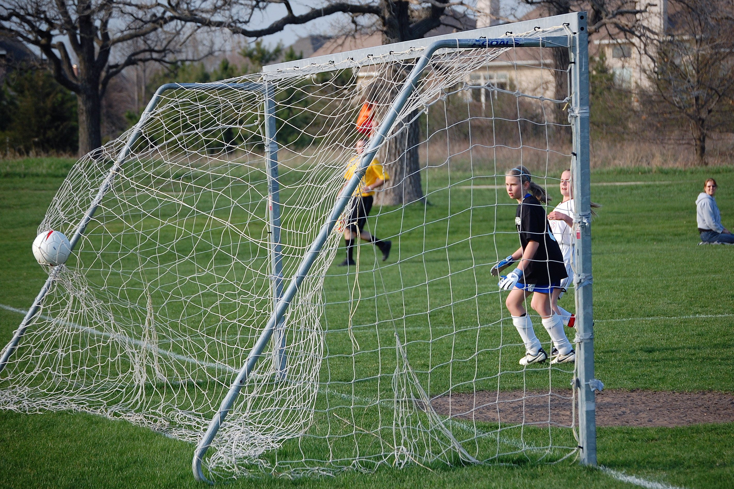 football goal